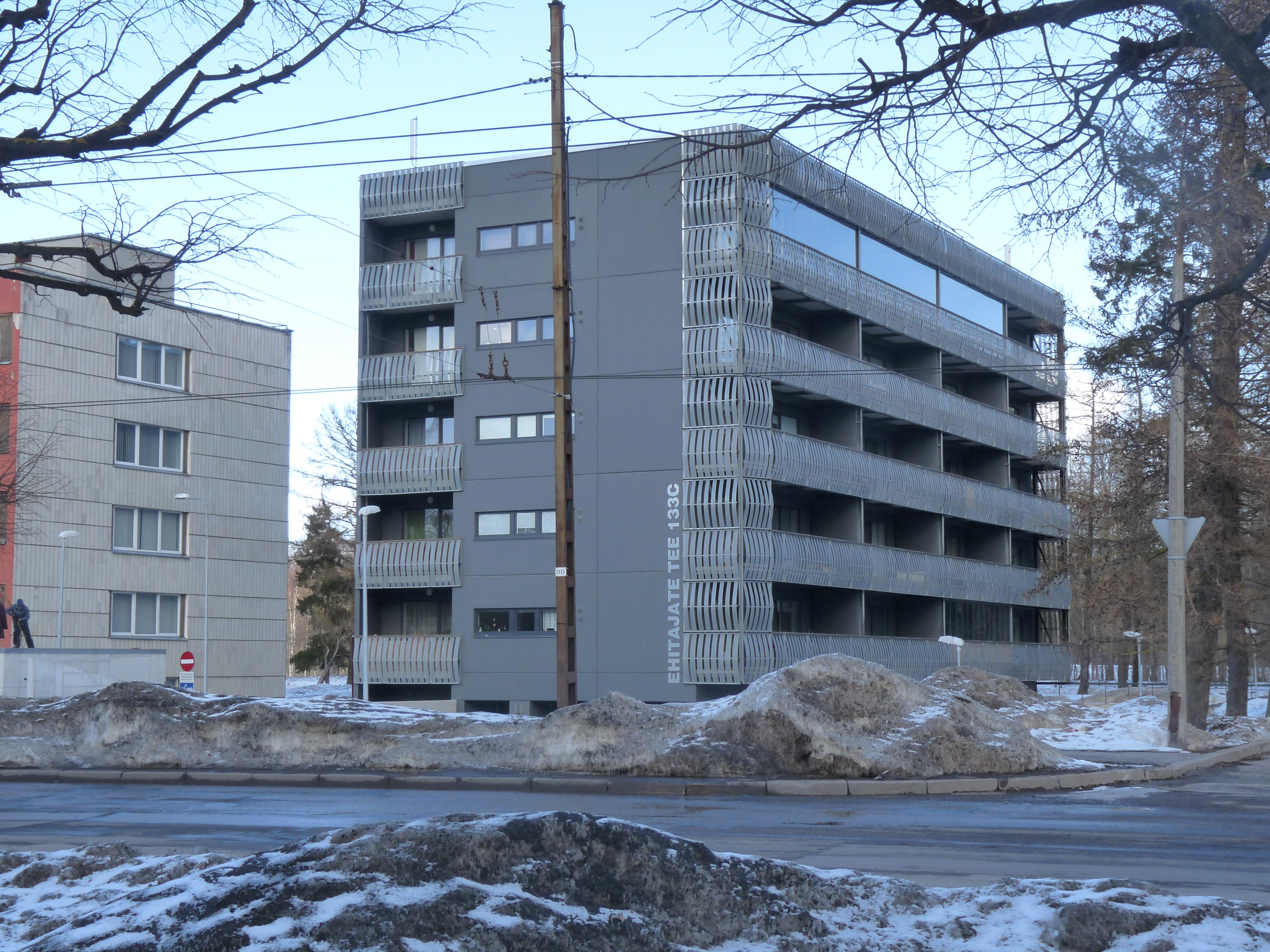 New apartment building in Väike-Õismäe.